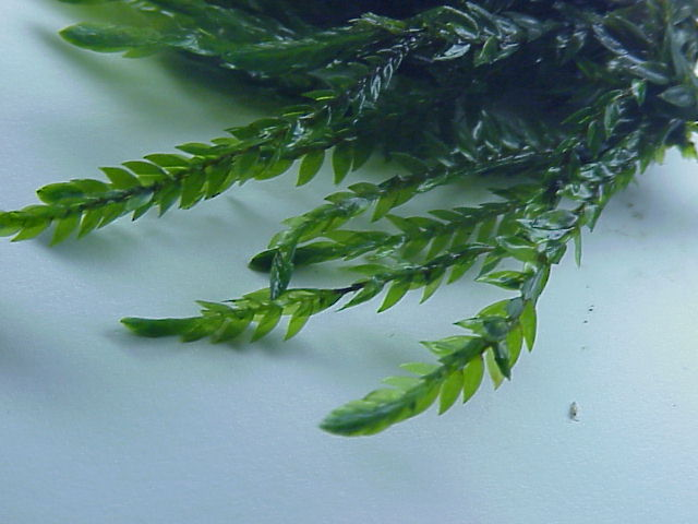 Species: Fontinalis antipyretica Family: ' Image No. 3